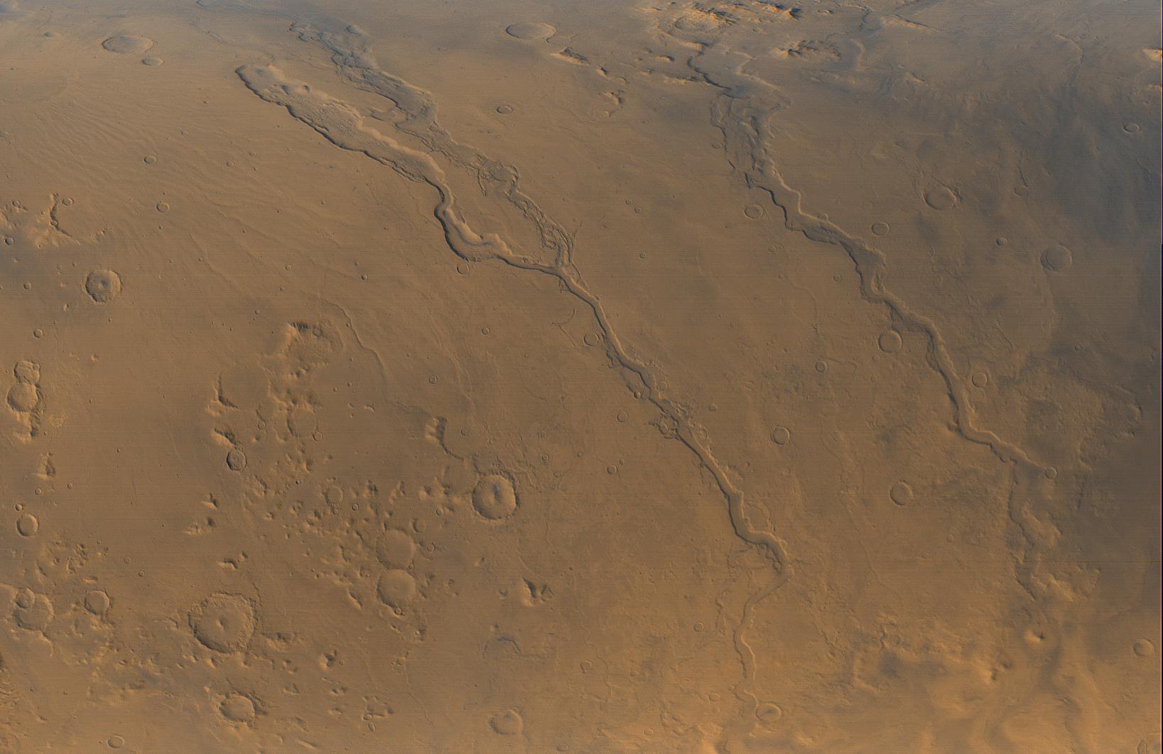 The Mars Global Surveyor (MGS) Mars Orbiter Camera (MOC) opened its fourth year orbiting the red planet with this mid-autumn view of three major valley systems east of the Hellas plains. From left to right, the first major valley, Dao Vallis, runs diagonally from the upper left to just past the lower center of the image. Niger Vallis joins Dao Vallis just above the center of the frame. Harmakhis Vallis extends diagonally across the right half of the picture, toward the lower right. These valleys are believed by some to have been formed--at least in part--by large outbursts of liquid water some time far back in the martian past, though there is no way to know exactly how many hundreds of millions or billions of years ago this might have occurred. In each valley, water would have flowed toward the bottom of the image. Although their dimensions vary along their courses, the valleys are all roughly 1 km (0.6 miles) deep and range in width from about 40 km (25 miles) down to about 8 km (5 mi). Located around 40°S, 270°W, the picture covers an area approximately 800 km across and is illuminated by sunlight from the lower left. North is toward the left; the picture is a composite of red and blue wide angle images obtained by MOC on September 13, 2000